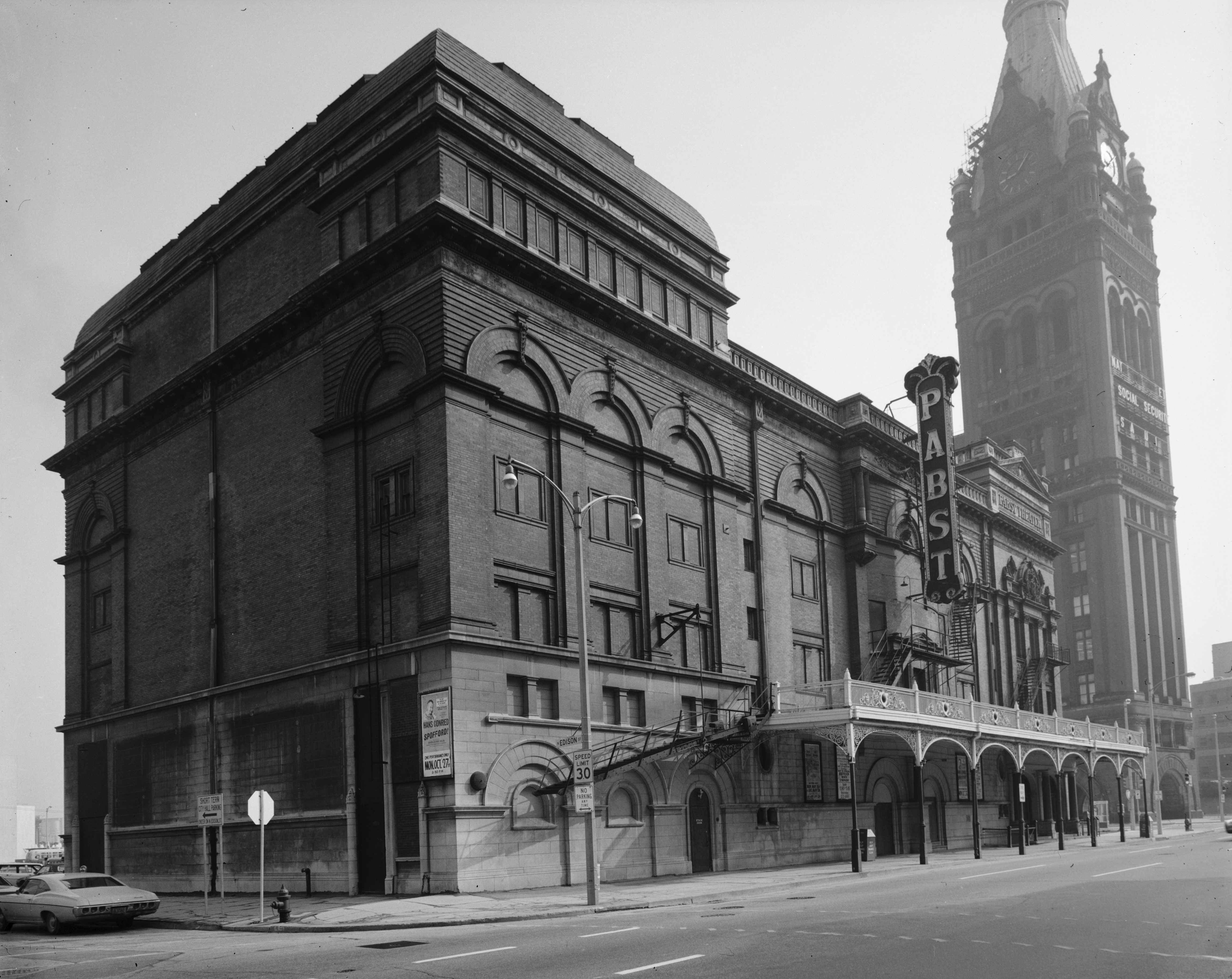 Pabst Theater, Milwaukee, Wisconsin, in 1970.